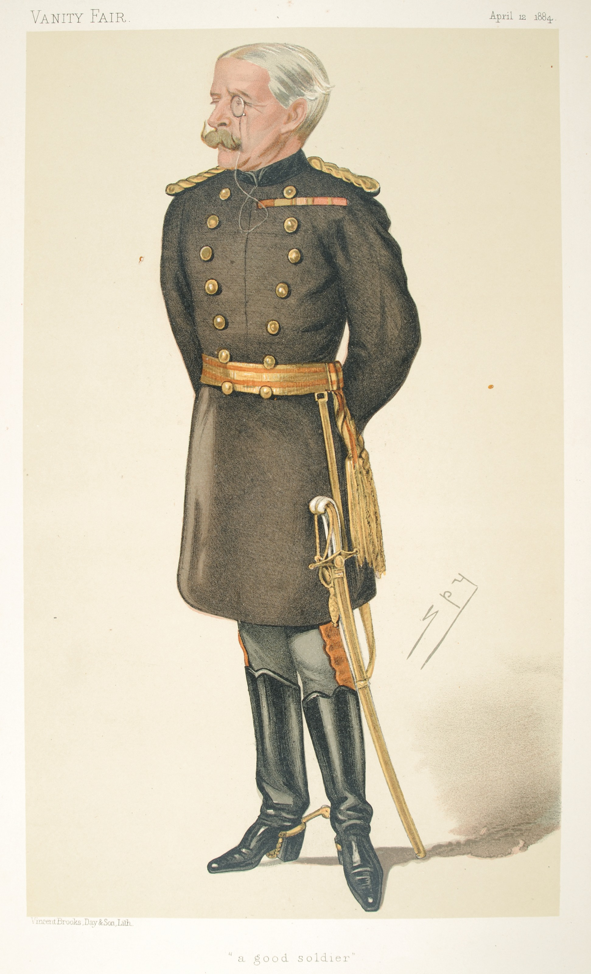 Men of the Day No.302: Caricature of Lt-Gen GWA Higginson CB. Caption reads: "a good soldier"